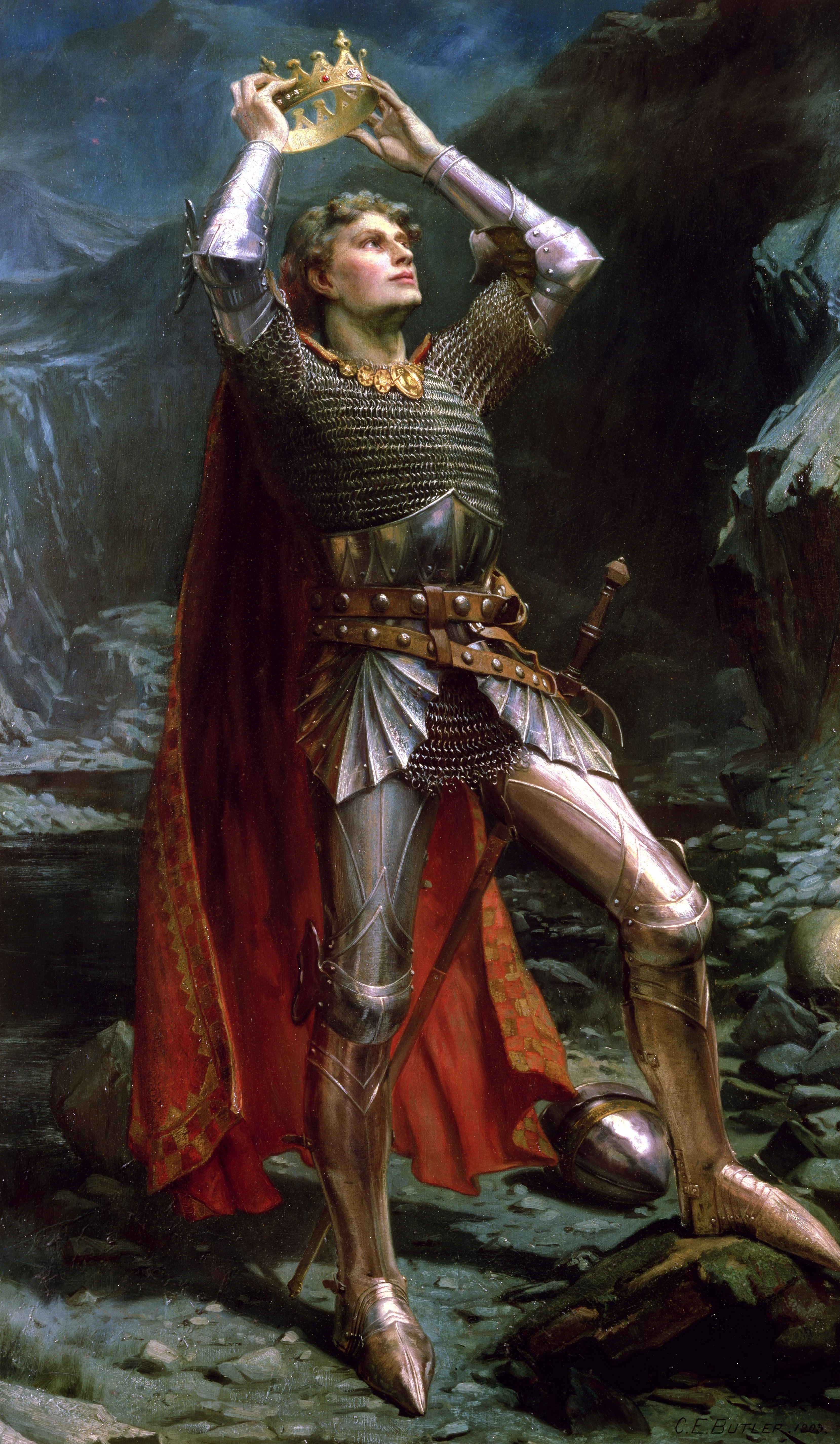 Arthurian knight